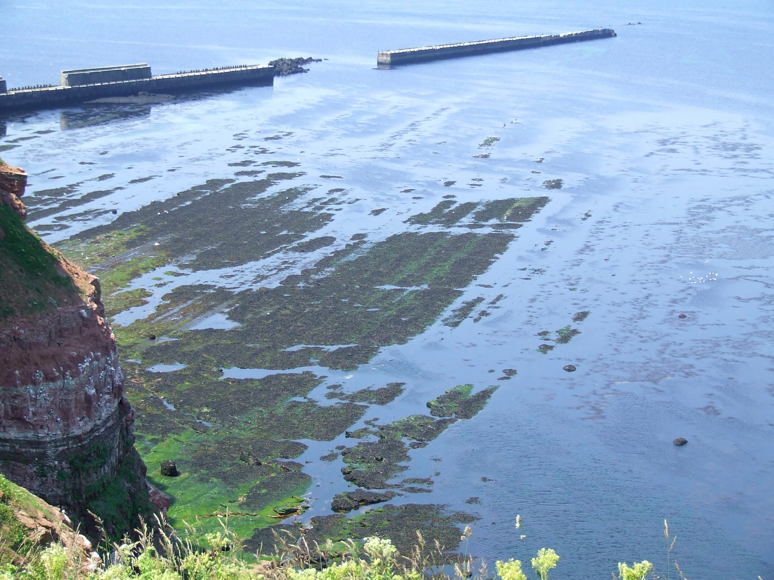 The wave-cut platform (German: "Felswatt" or "Schorre") on ebb tide close to the "Lange Anna" on Heligoland. In the background a part of the "Preußenmauer" (Prussian Wall) for coastal protection is visible.